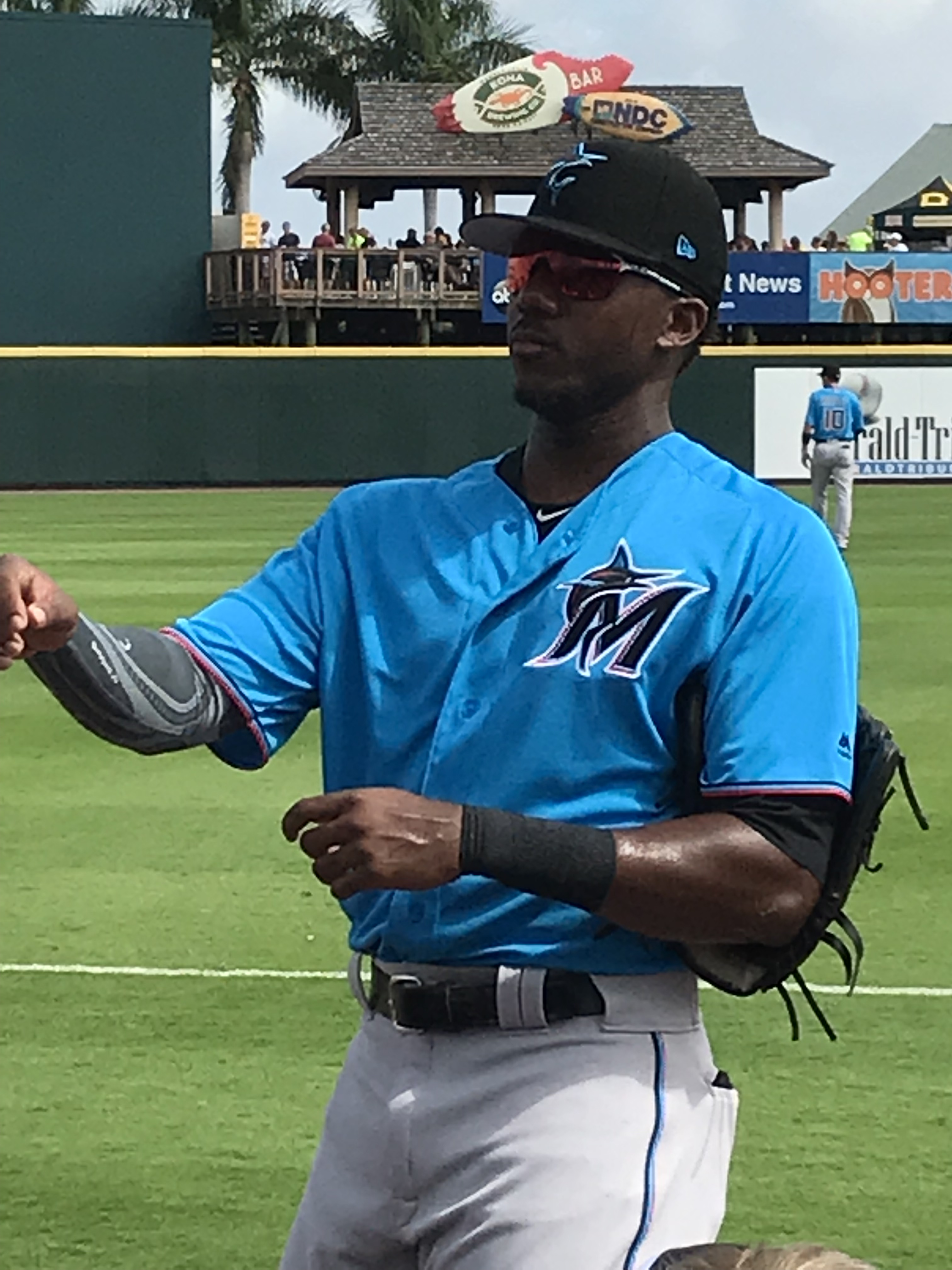 Lewis Brinson signing an autograph